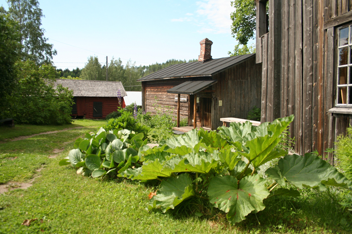 Postbacken open-air museum in Porvoo, Finland.